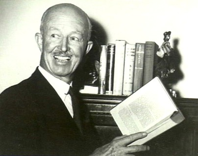 AWM caption : AIR MARSHAL SIR RICHARD WILLIAMS AS DIRECTOR-GENERAL OF CIVIL AVIATION.